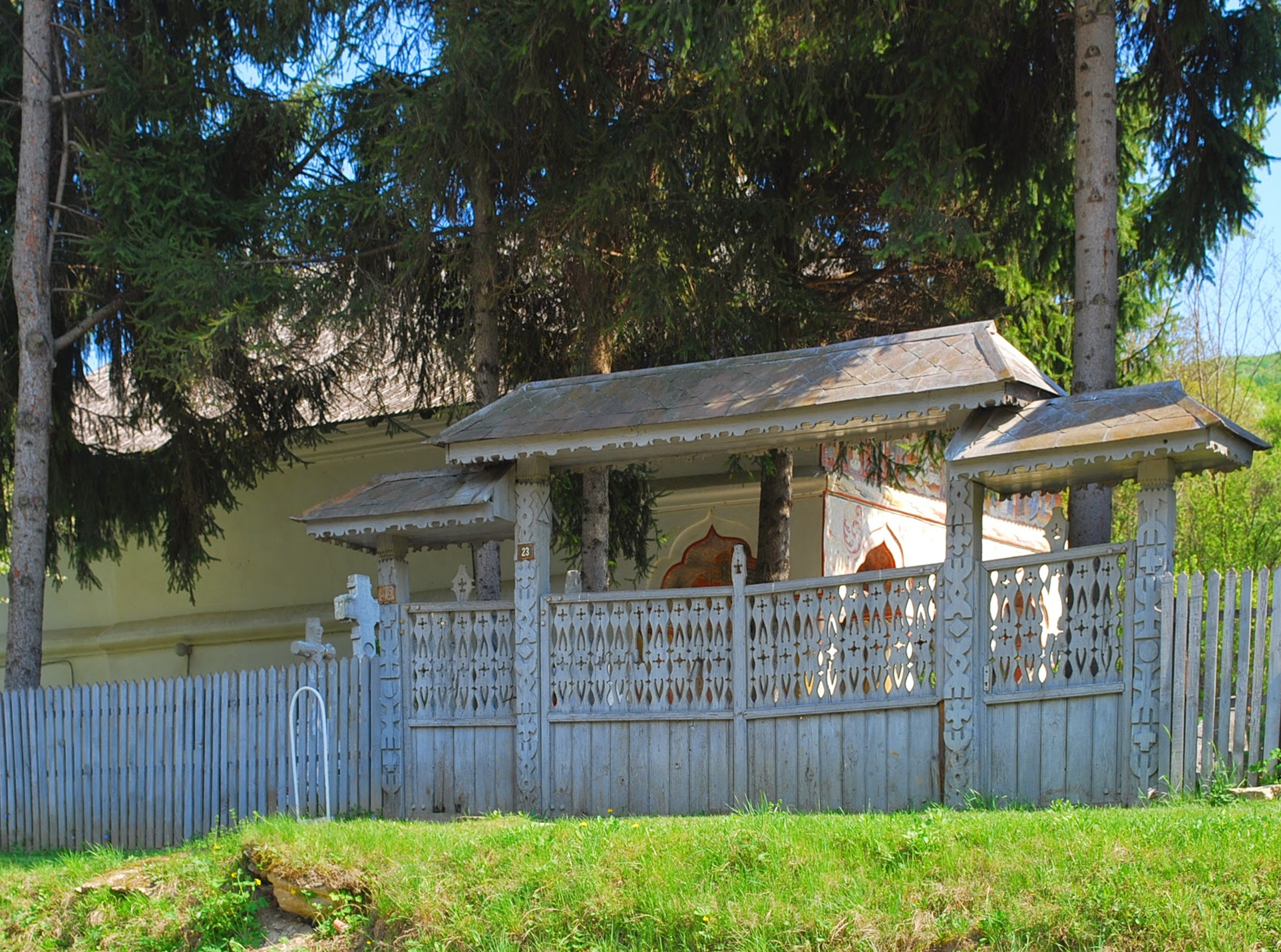 Church of the Presentation of the Virgin Mary in Ciuta, Măgura commune, Buzău County, RomaniaRomână: Biserica „Intrarea în Biserică a Maicii Domnului” din Ciuta, comuna Măgura, județul Buzău, România 01